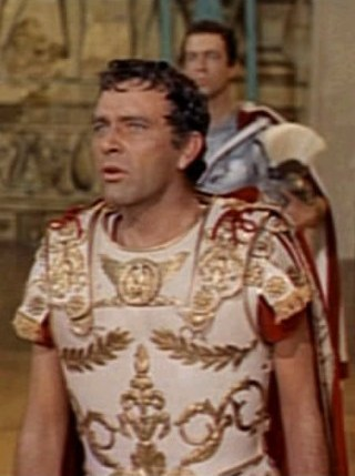 Screenshot of Richard Burton from the trailer for the film Cleopatra.